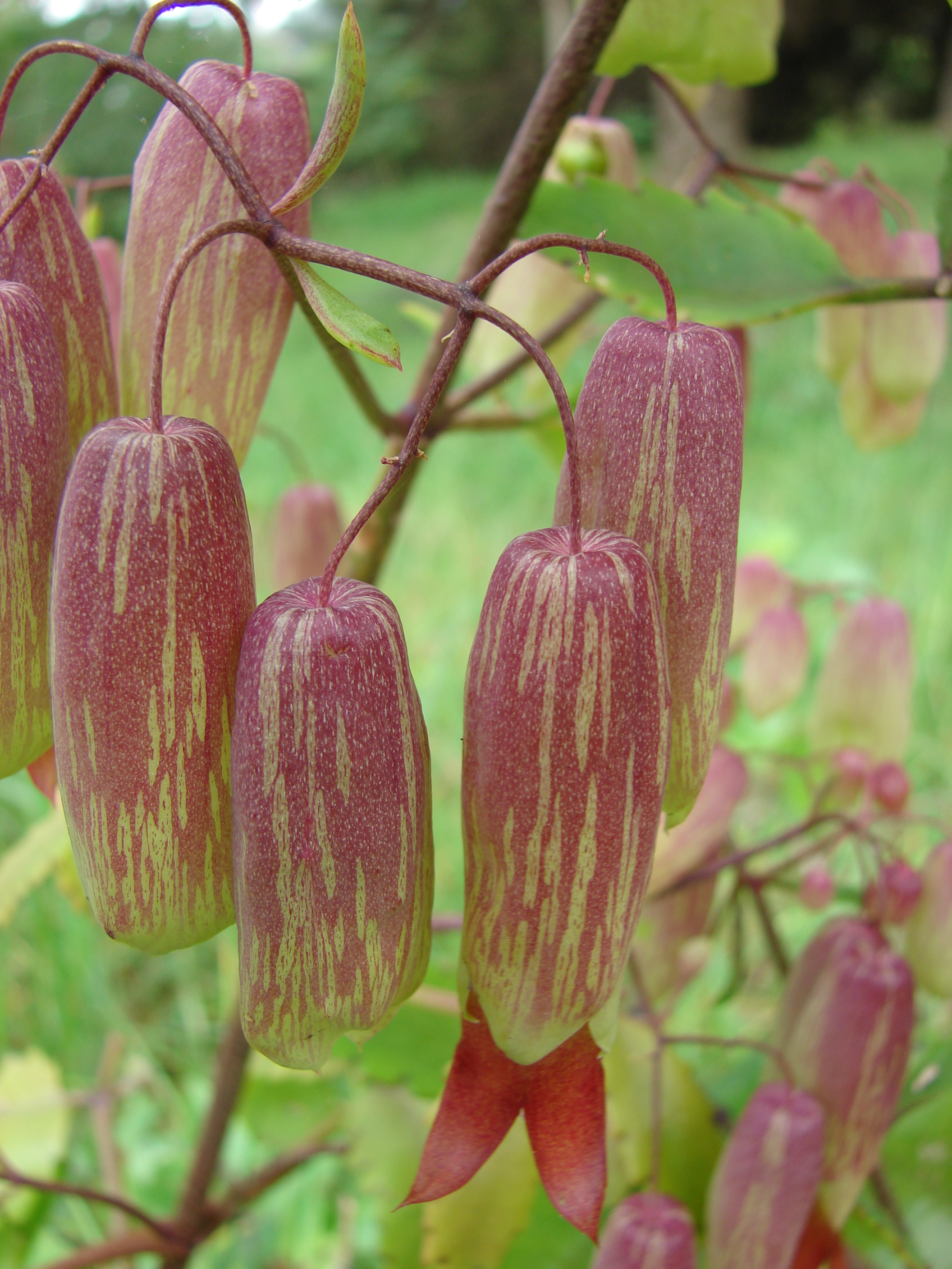 Kalanchoe pinnata (flowers). Location: Maui, Kula